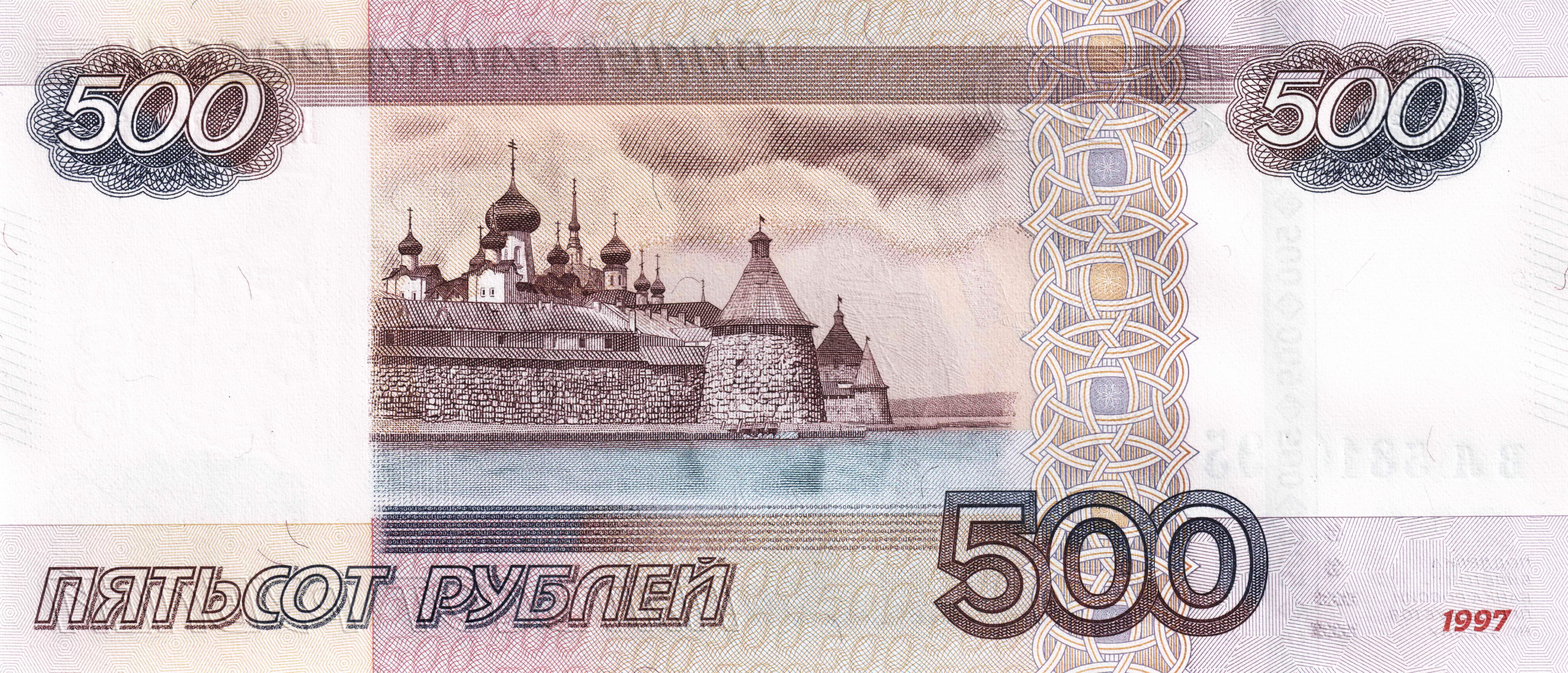 Russian banknote. 500 rubles. Version of 2010 year. Back